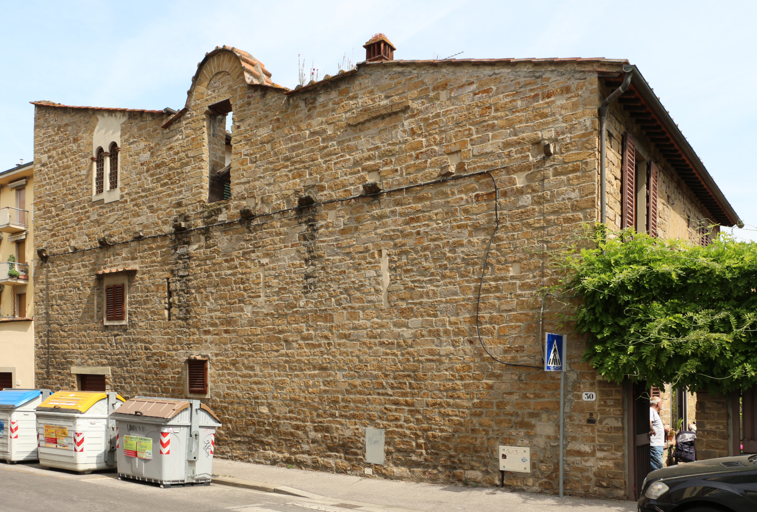 Via del Palazzo dei Diavoli